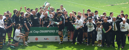 This is a photo which I took at the Heineken Cup Final, 2007. Wasps beat Leicester, 25-9 I've also uploaded this image to flickr.